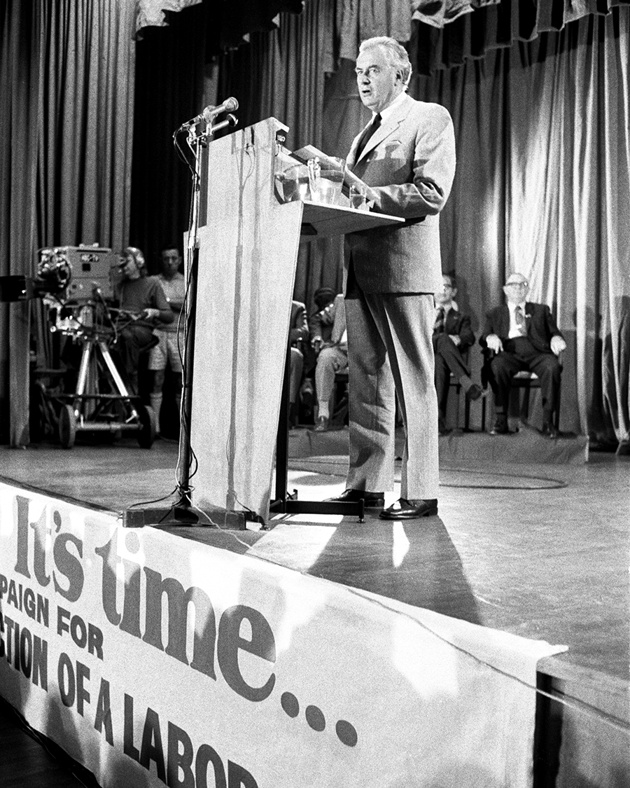 Gough Whitlam delivering the Australian Labor Party's 1972 election policy speech at the Blacktown Civic Centre in Sydney.